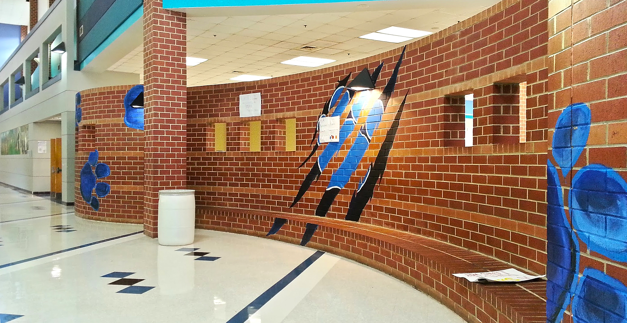 Students from the Northwestern High School AP Art Studio classes, painted these school mascot-inspired paws and claws, as part of keeping up with the arts theme of the school.